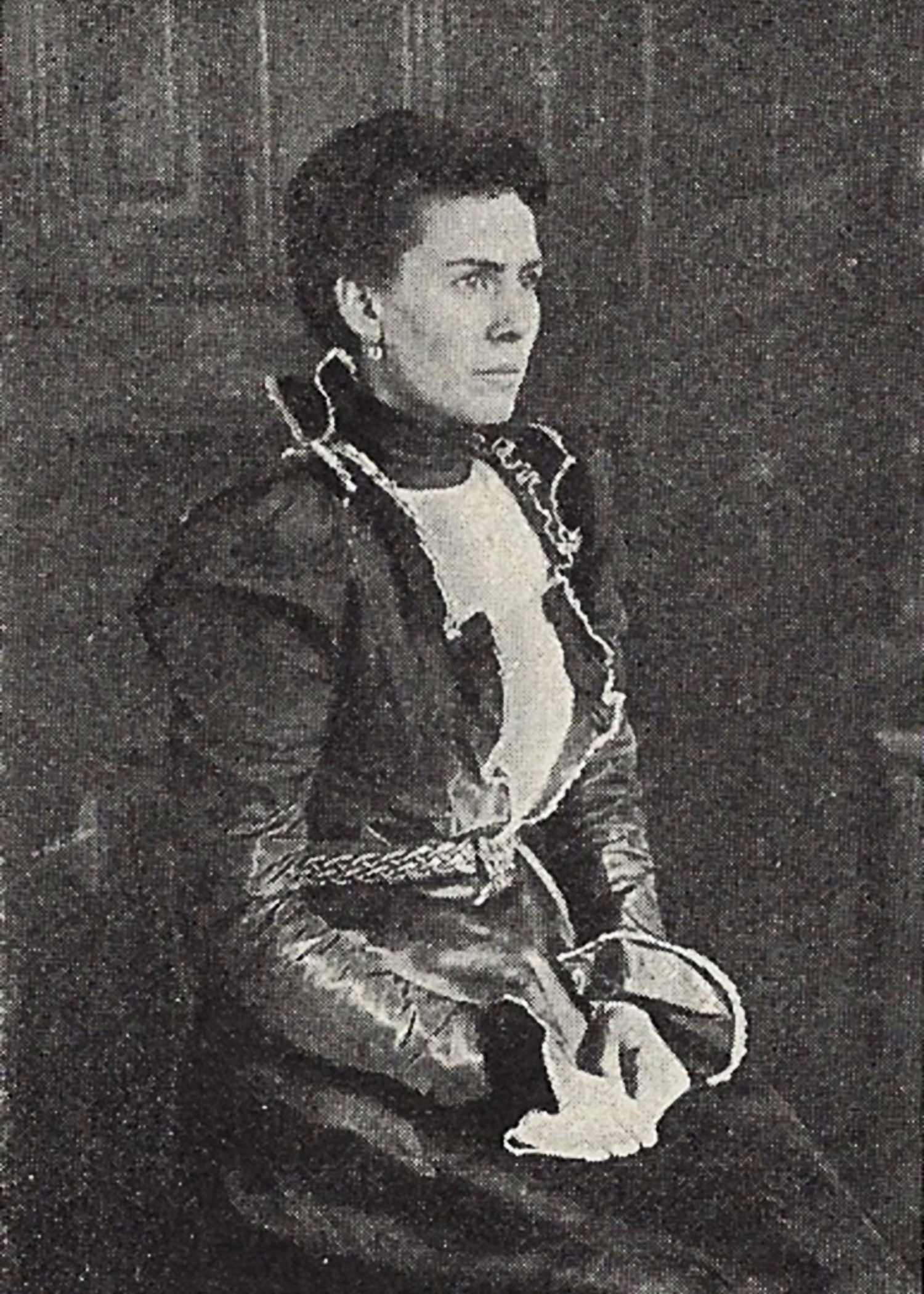 This image was taken just days before Mattie Lee Price passed away.